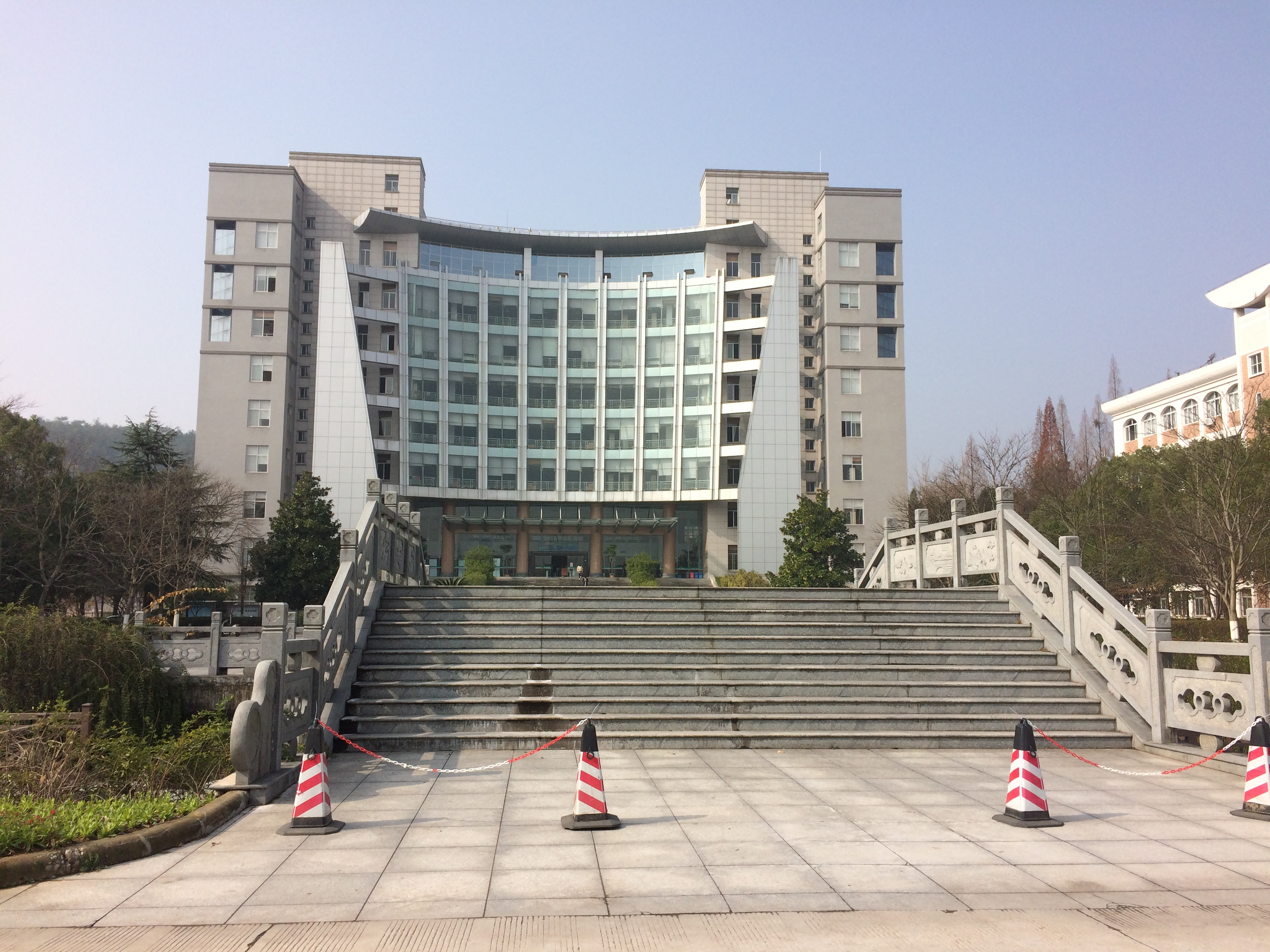 The Library of Lishui University in Lishui, Zhejiang, China.